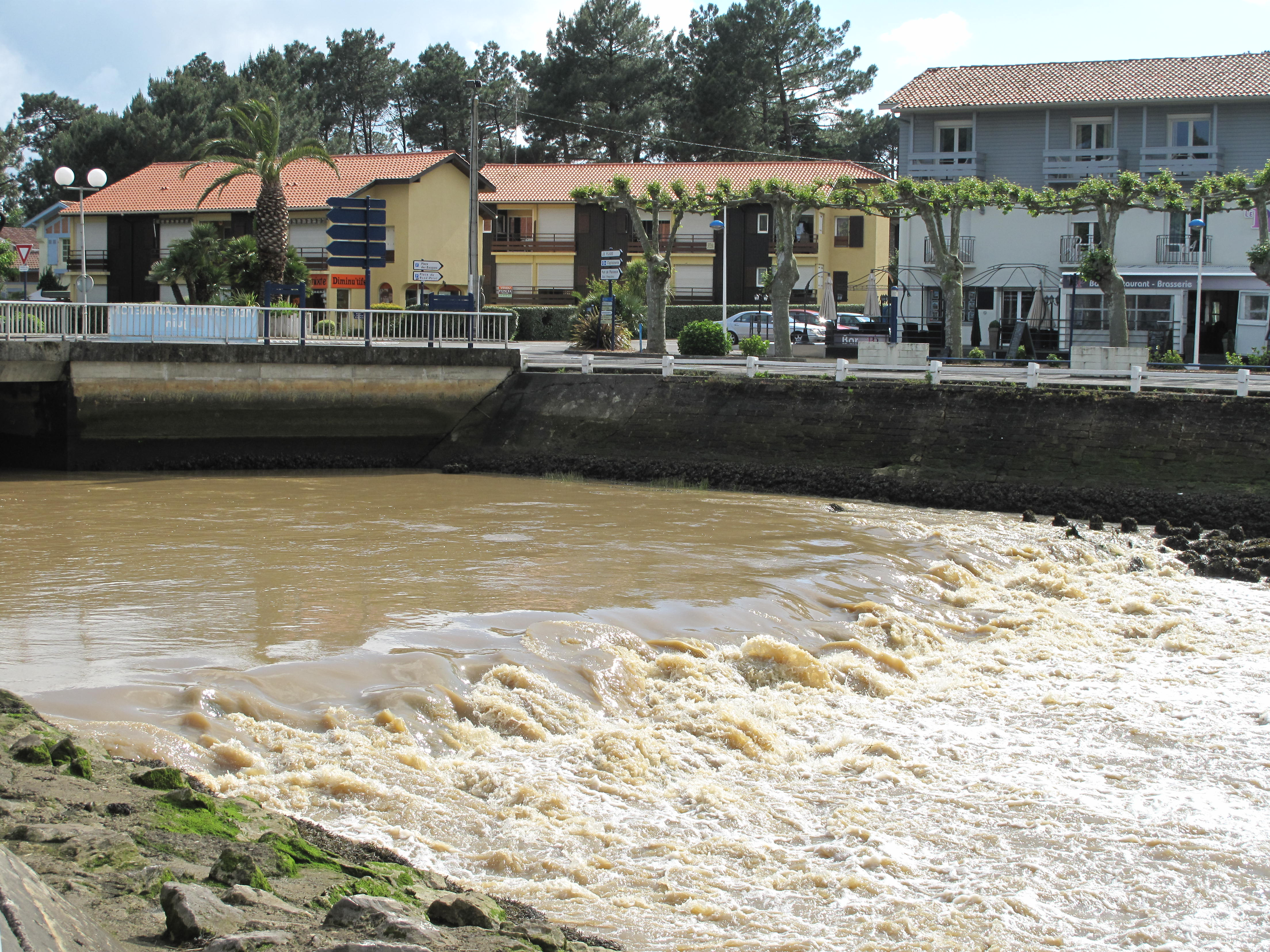 Small weir in the Boudigau river by low tide in Capbreton (Landes, France).